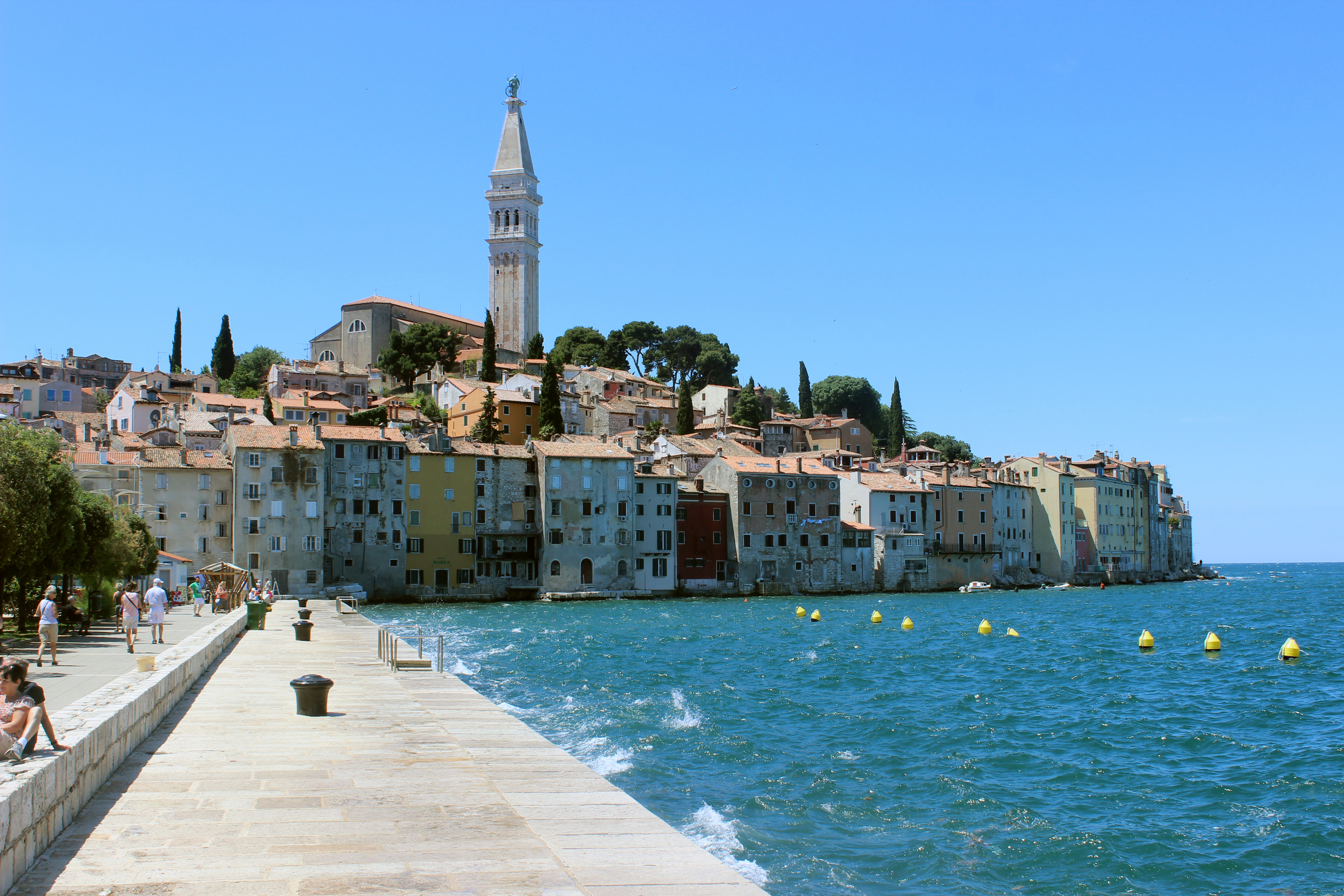 Distant view of Rovinj, Croatia